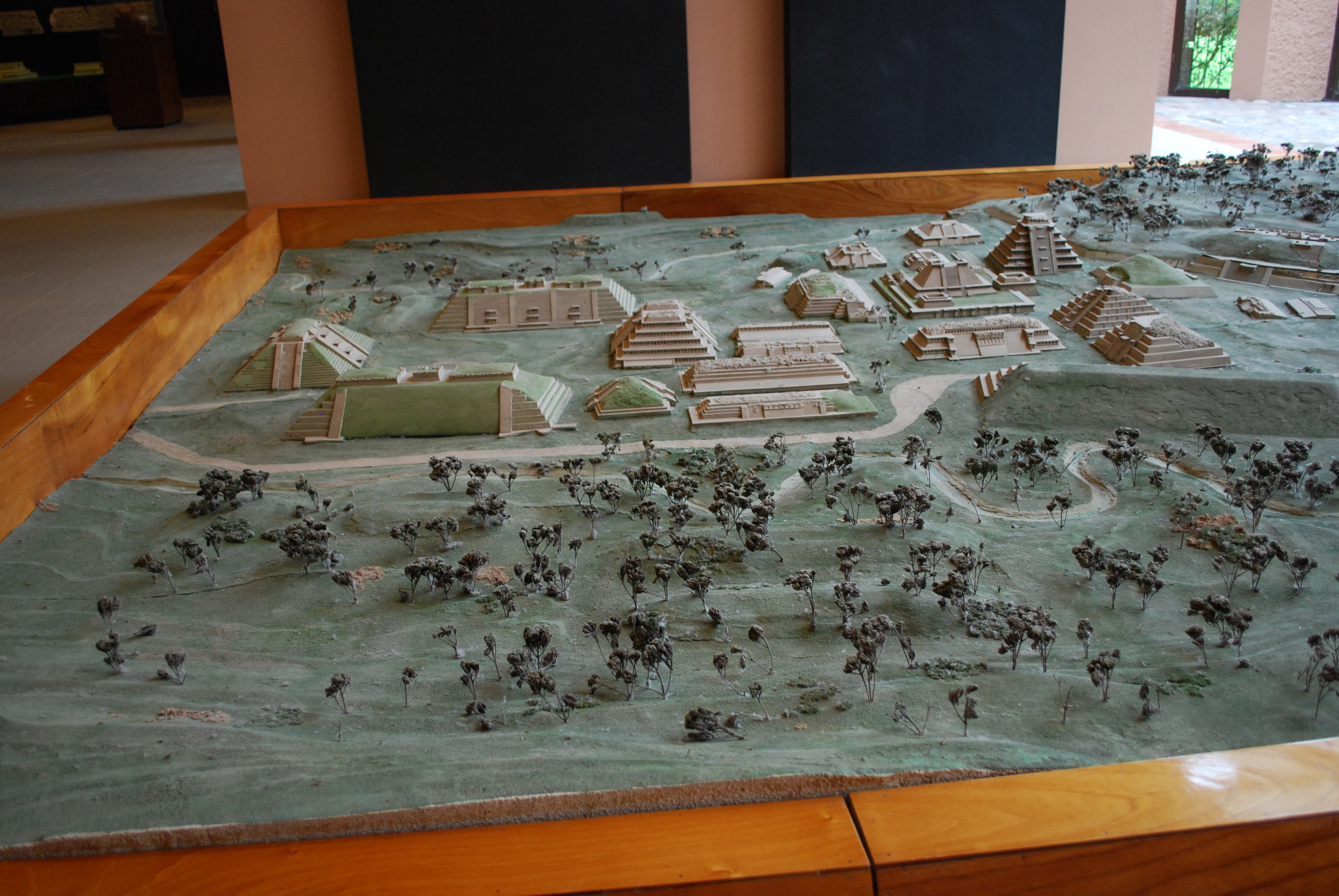 Model of the south end of the Tajin site with market area to the left and the Pyramid of the Niches at the back left. In the Tajin site musuem.